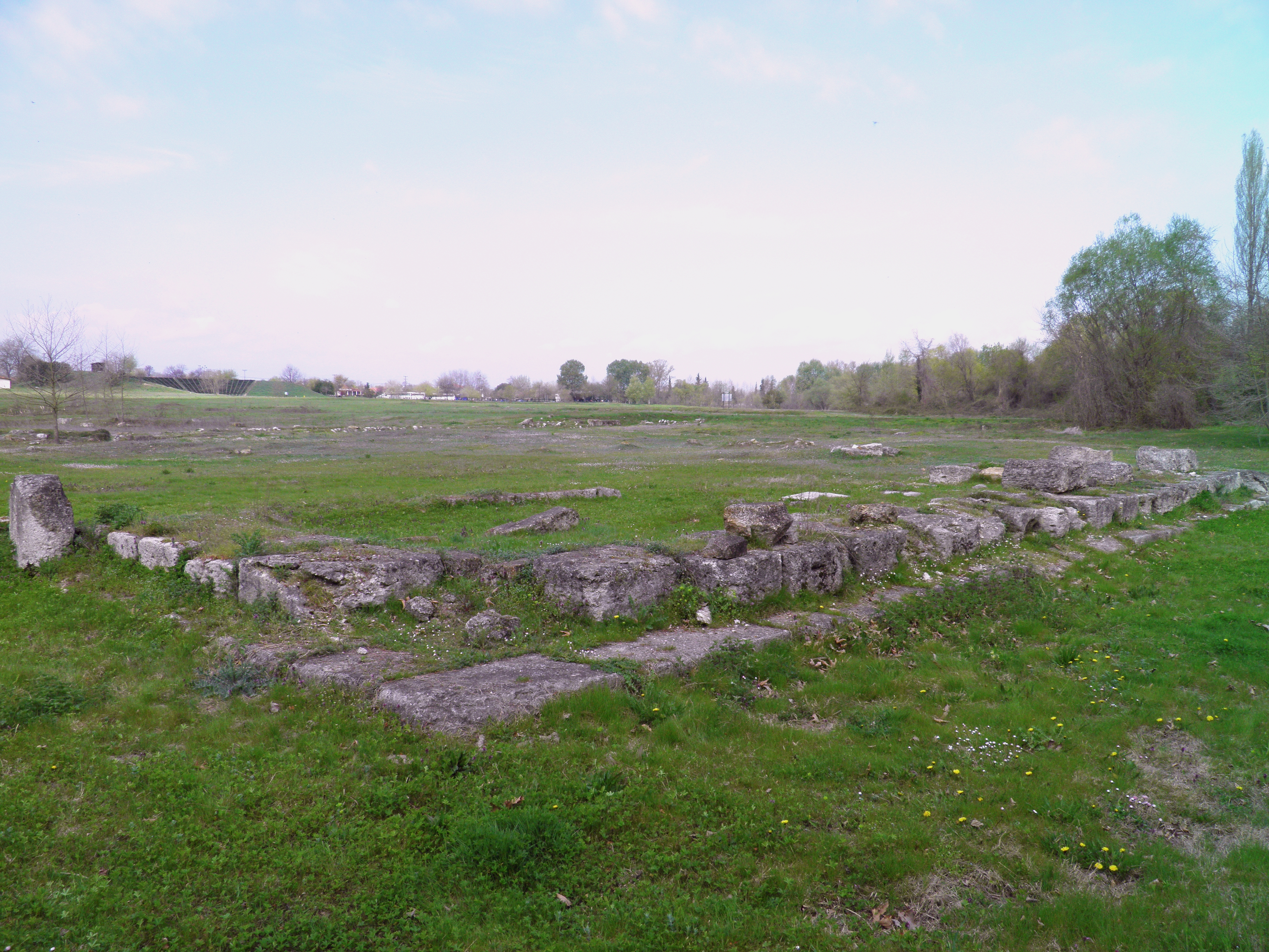 The sanctuary of Zeus Olympios was originally a grove. The first architectural structures were erected in the Hellenistic times. The precinct was surrounded by a wall, partially found. A stoa with propylon in the middle, separated the altar area from the grand yard to the west. Situated in a predominant position to the east of the sanctuary, is the altar of Zeus Olympios, an elongated struture 22 meters long. Built in the 4th century BC, probably over earlier altars. It was made by carved porous limestone and filled with bricks. In front of the altar there were three rows of eleven stone bases. A bronze ring attached to each base, was used to hold the sacrificial animal down. Inside the sanctuary, stood the statues of the Macedonian kings. Only the pedestral of the statue of Kassandros and a fragment of the pedestral of the statue of Perseus were found. In this same place probably stood the famous sculptures of Lysipos, a group of bronze horsemen, dedicated by Alexander the Great, in honour of those who fell in the battle of the Granikos river in 334 BC. The renowed sanctuary of the Macedonians was burned down in the summer of 219 BC by the Aetolian army. Their ill-famed general Skopas destropyed the building and knocked to the ground the statues of kings. The Macedonians of Dion rebuilt their sanctuary and buried in pits many of the dedication that had been destroyed. Recent excavations have brought to light just such pits containing, among other things, royal inscriptions of value for the history of Macedonia, such as a letter of Philipp V to the inhabitants of Pherai and Demetrias, an alliance agreement between Philipp V and the Lysiacheians, the healing text of the treaty between king Perseus and the Boiotians etc.